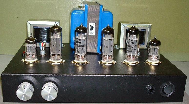 ppa